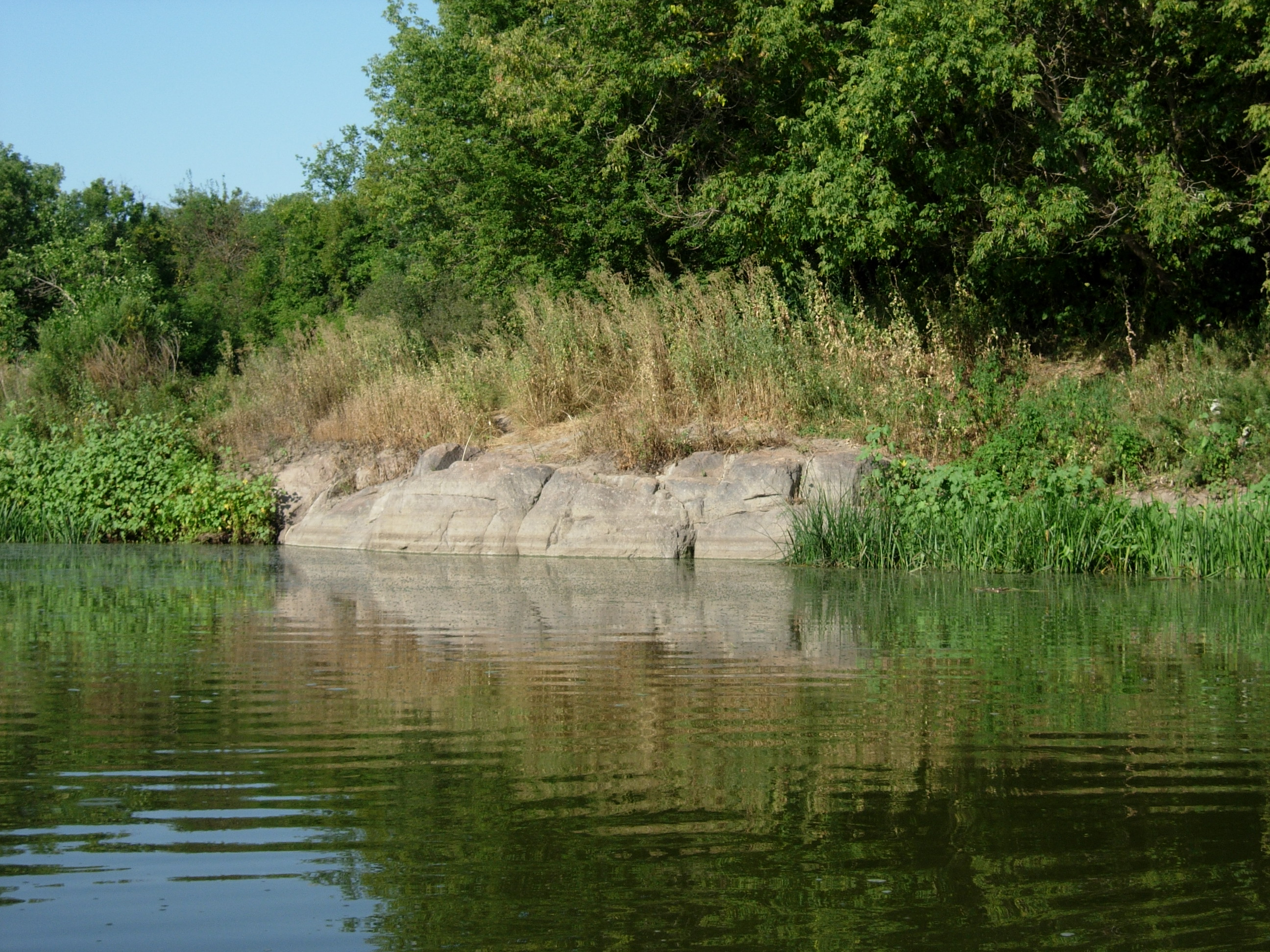 Natural granite on the bank of Don river downstream of Pavlovsk